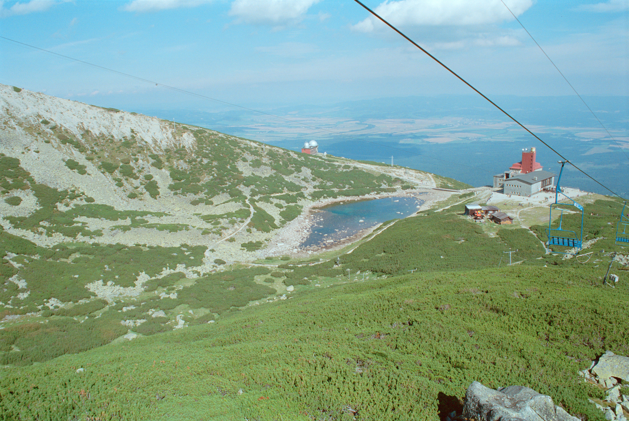 Skalnaté pleso own picture, taken in summer 2000